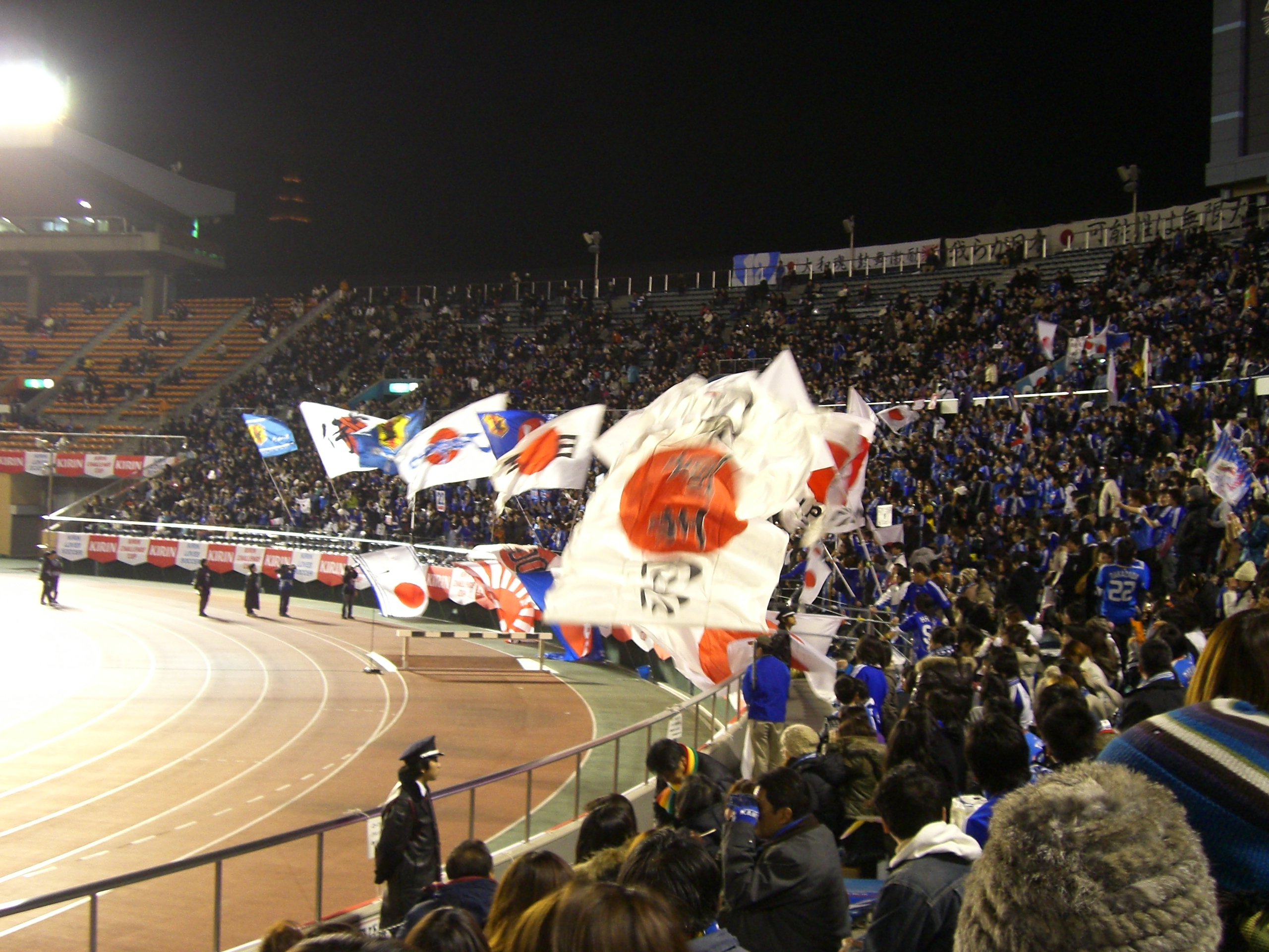 It is Japan v.s. Bosnia and Herzegovina.